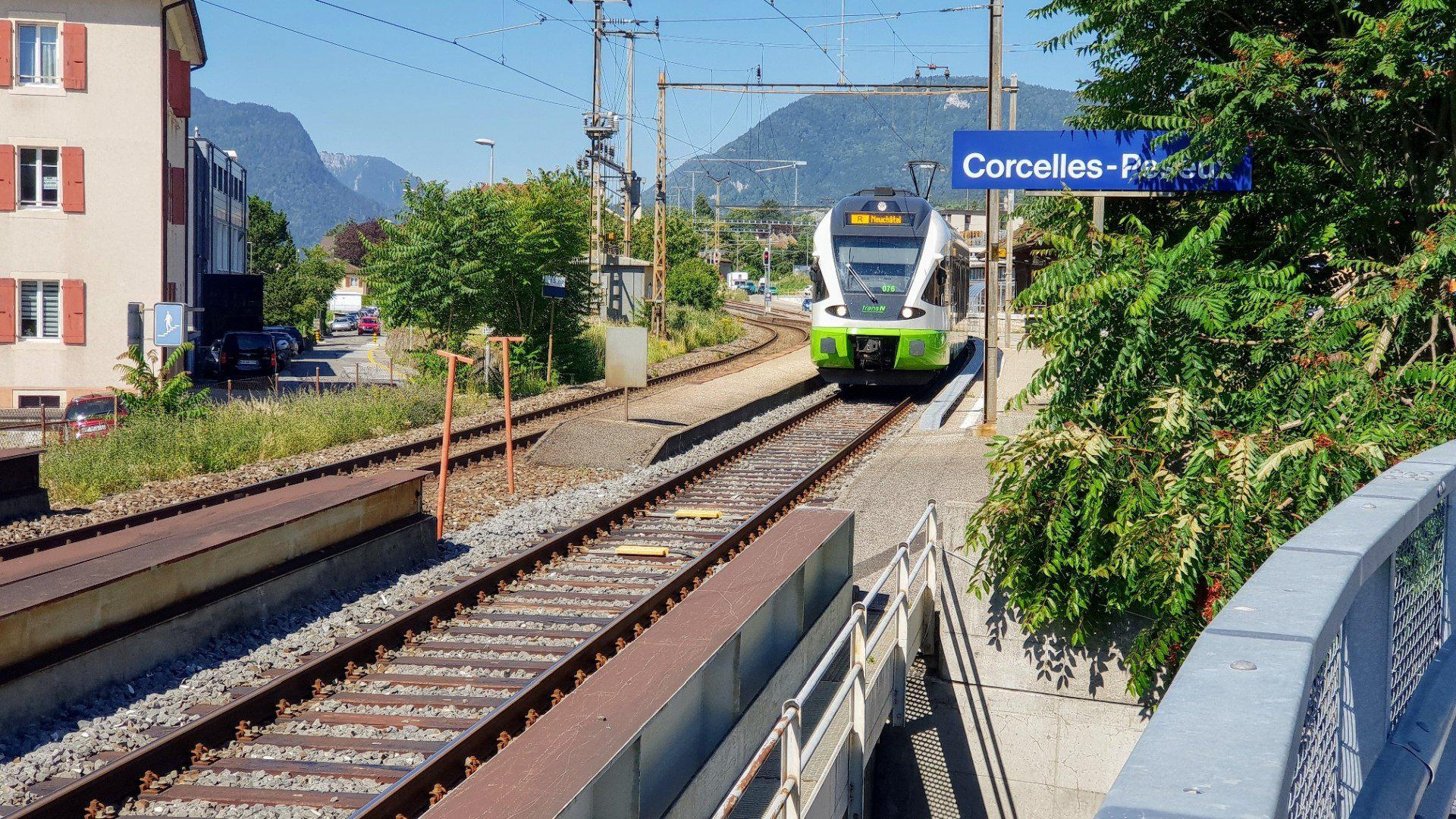 Corcelles-Peseux railway station in Corcelles-Cormondrèche, Switzerland.